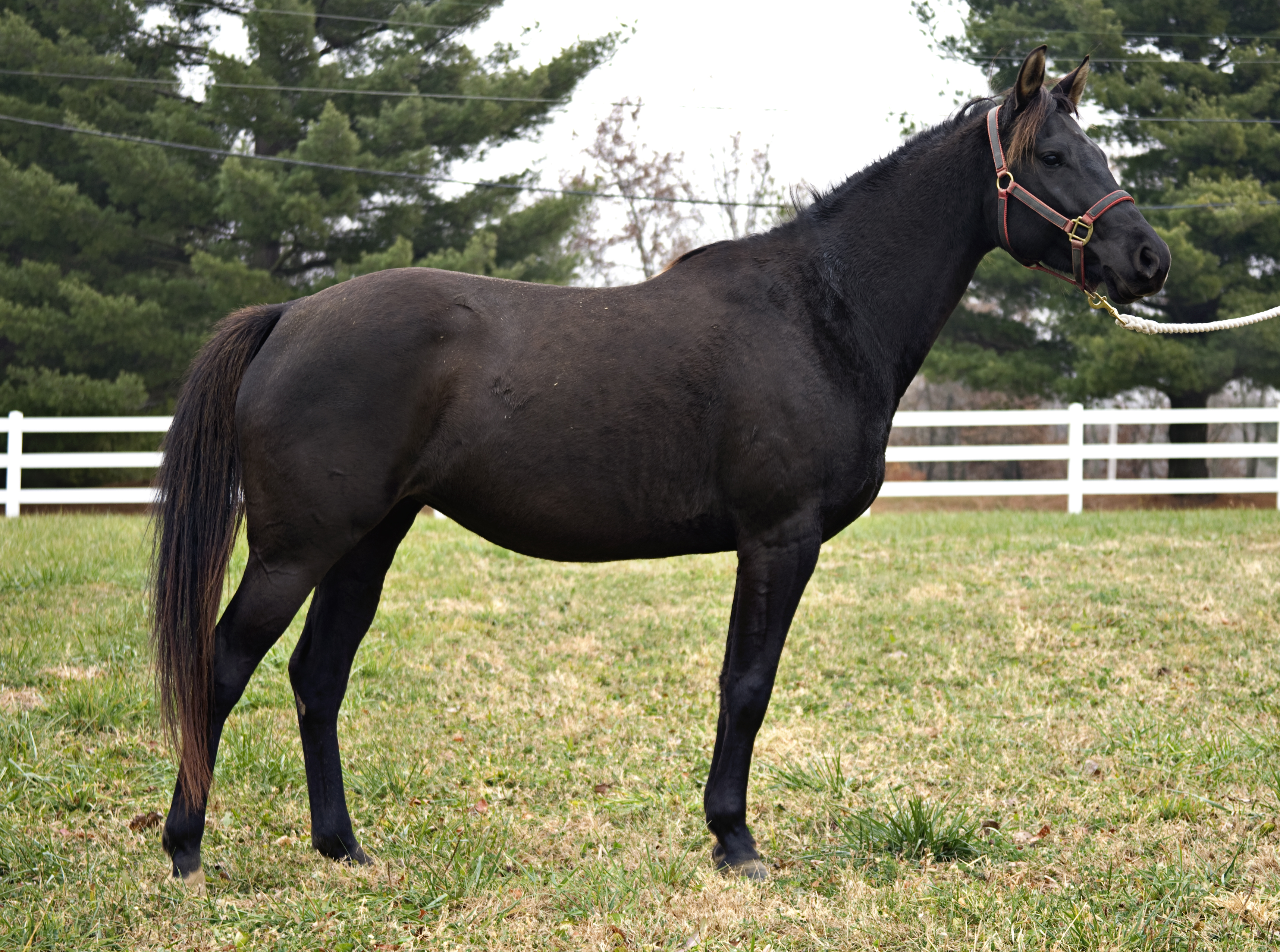 A half-Arabian, half-Quarter Horse mare (i.e. a Quarab). Five years old and getting her winter coat.